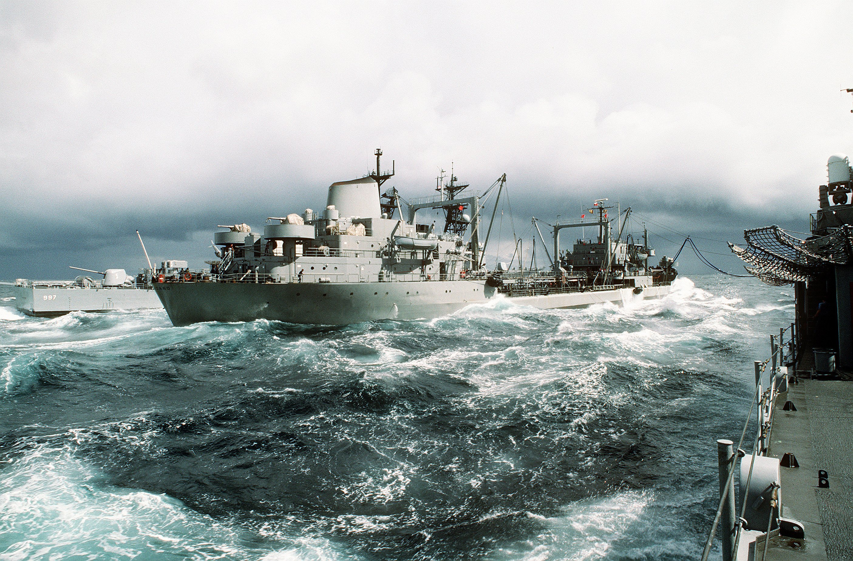 The Chilean oiler Araucano (AO-53) refuels the U.S. Navy guided missile cruiser USS Josephus Daniels (CG-27) and the destroyer USS Hayler (DD-997) in rough seas. The vessels are taking part in Unitas XXXI, an annual, joint exercise between the U.S. Navy and the naval forces of nine South American countries.